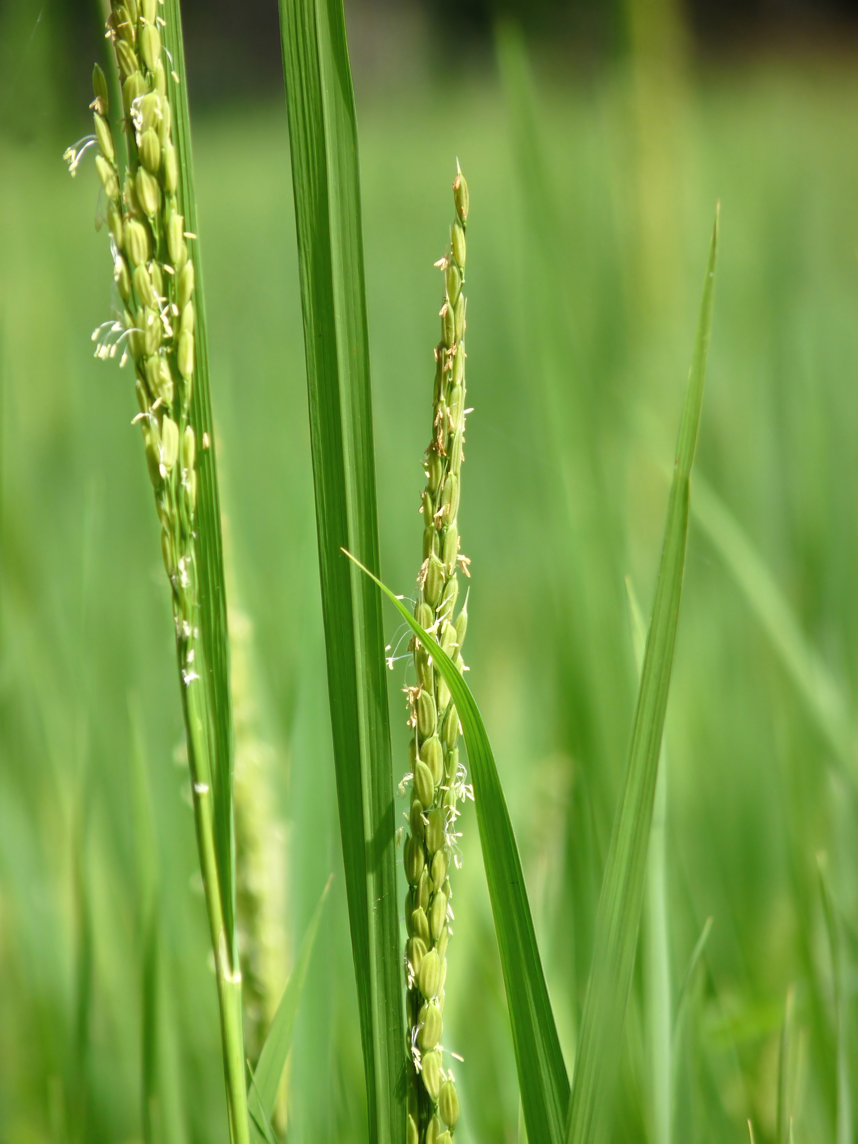 Oryza sativa, commonly known as Asian rice, is the plant species most commonly referred to in English as rice. Oryza sativa is the cereal with the smallest genome, consisting of just 430Mb across 12 chromosomes. It is renowned for being easy to genetically modify, and is a model organism for cereal biology. Oryza sativa contains two major subspecies: the sticky, short grained japonica or sinica variety, and the nonsticky, long-grained indica variety. Japonica varieties are usually cultivated in dry fields, in temperate East Asia, upland areas of Southeast Asia and high elevations in South Asia, while indica varieties are mainly lowland rices, grown mostly submerged, throughout tropical Asia. Rice is known to come in a variety of colors, including: White rice, Brown rice, Black rice, Purple rice, and Red rice. The rice plant can grow up to 3.3–5.9 ft tall, occasionally more depending on the variety and soil fertility. It has long, slender leaves 50-100 cm long and 2-2.5 cm broad. The small wind-pollinated flowers are produced in a branched arching to pendulous inflorescence 30-50 cm long. The edible seed is a grain 0.5-1.2 cm long and 2-3 mm thick. Rice cultivation is well-suited to countries and regions with low labor costs and high rainfall, as it is labor-intensive to cultivate and requires ample water. Rice can be grown practically anywhere, even on a steep hill or mountain. Although its parent species are native to South Asia and certain parts of Africa, centuries of trade and exportation have made it commonplace in many cultures worldwide.